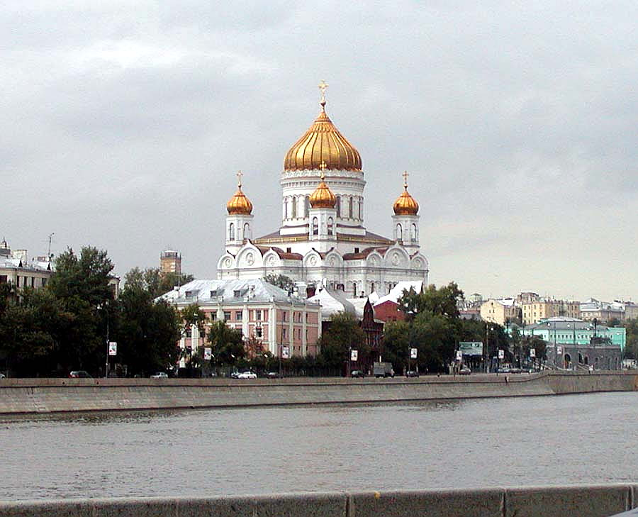 Photo of Moscow River and Christ the Savior Cathedral in Moscow